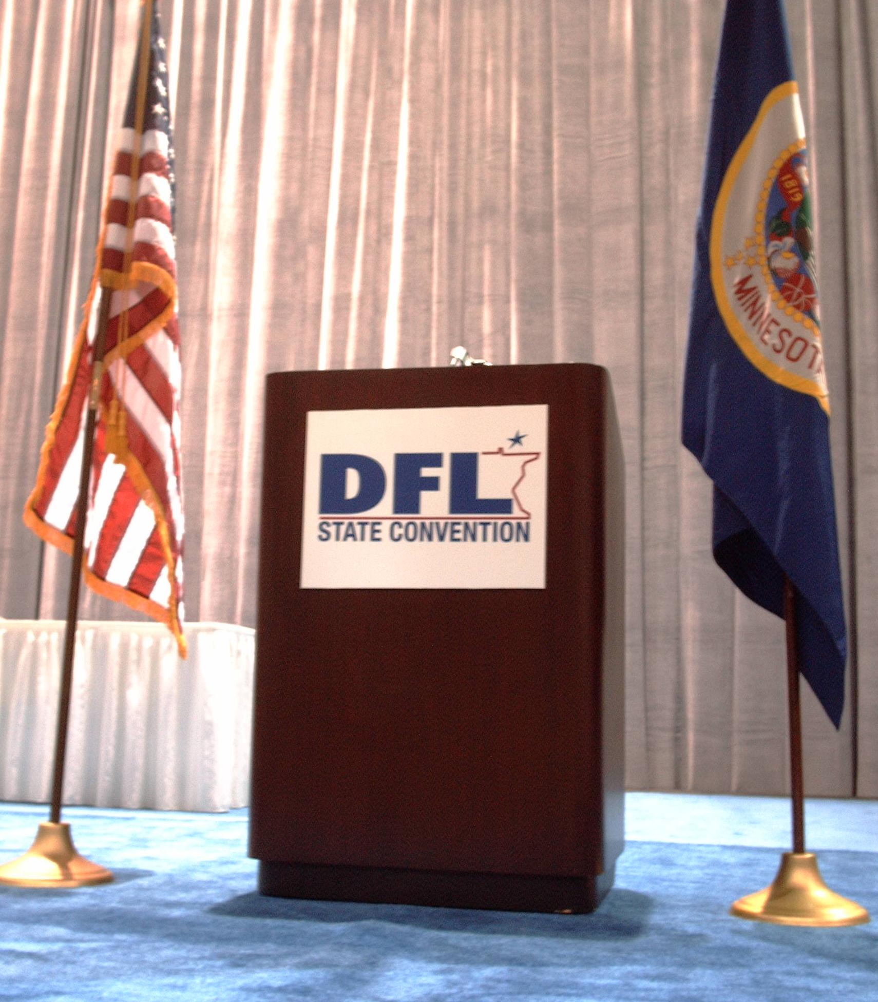 Stage of the 2006 Democratic Farm Labor party state convention in Rochester, Minnesota